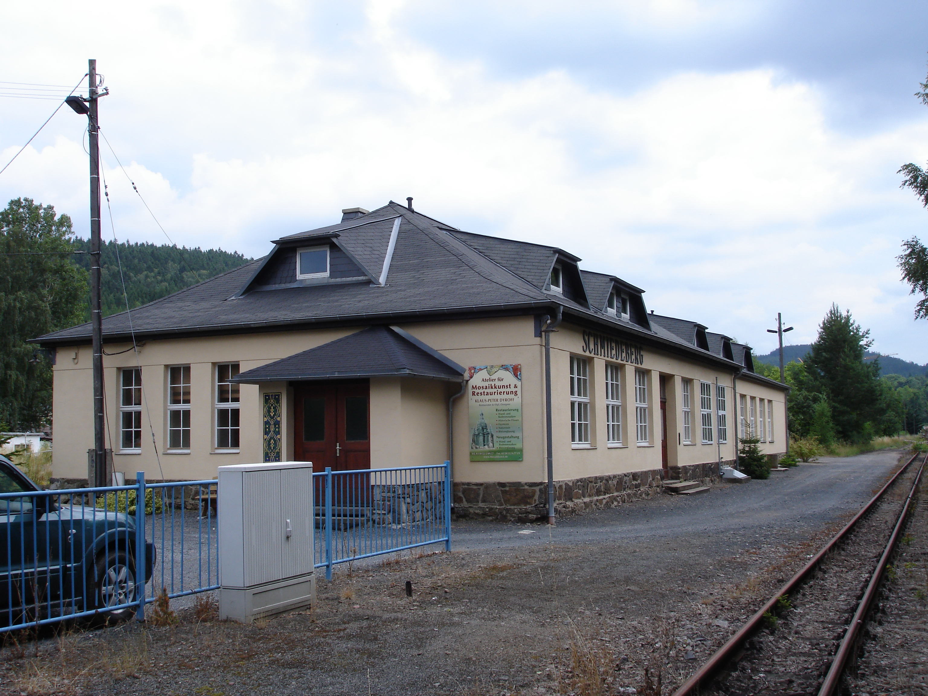 station Schmiedeberg, Weißeritztalbahn, Saxony, Germany